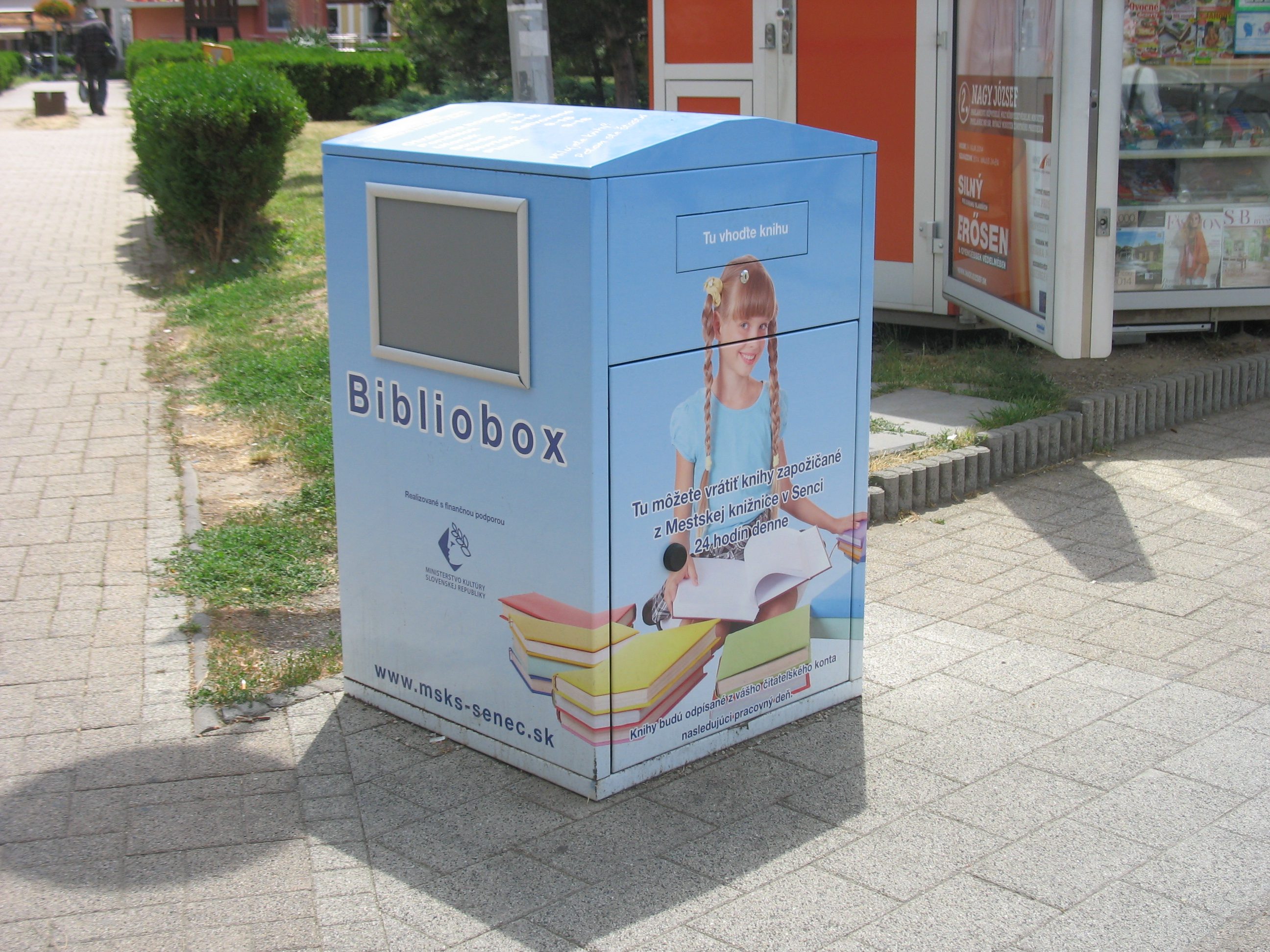 Drop box for returning library books in Senec, Slovakia